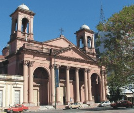 Basílica Inmaculada Concepción